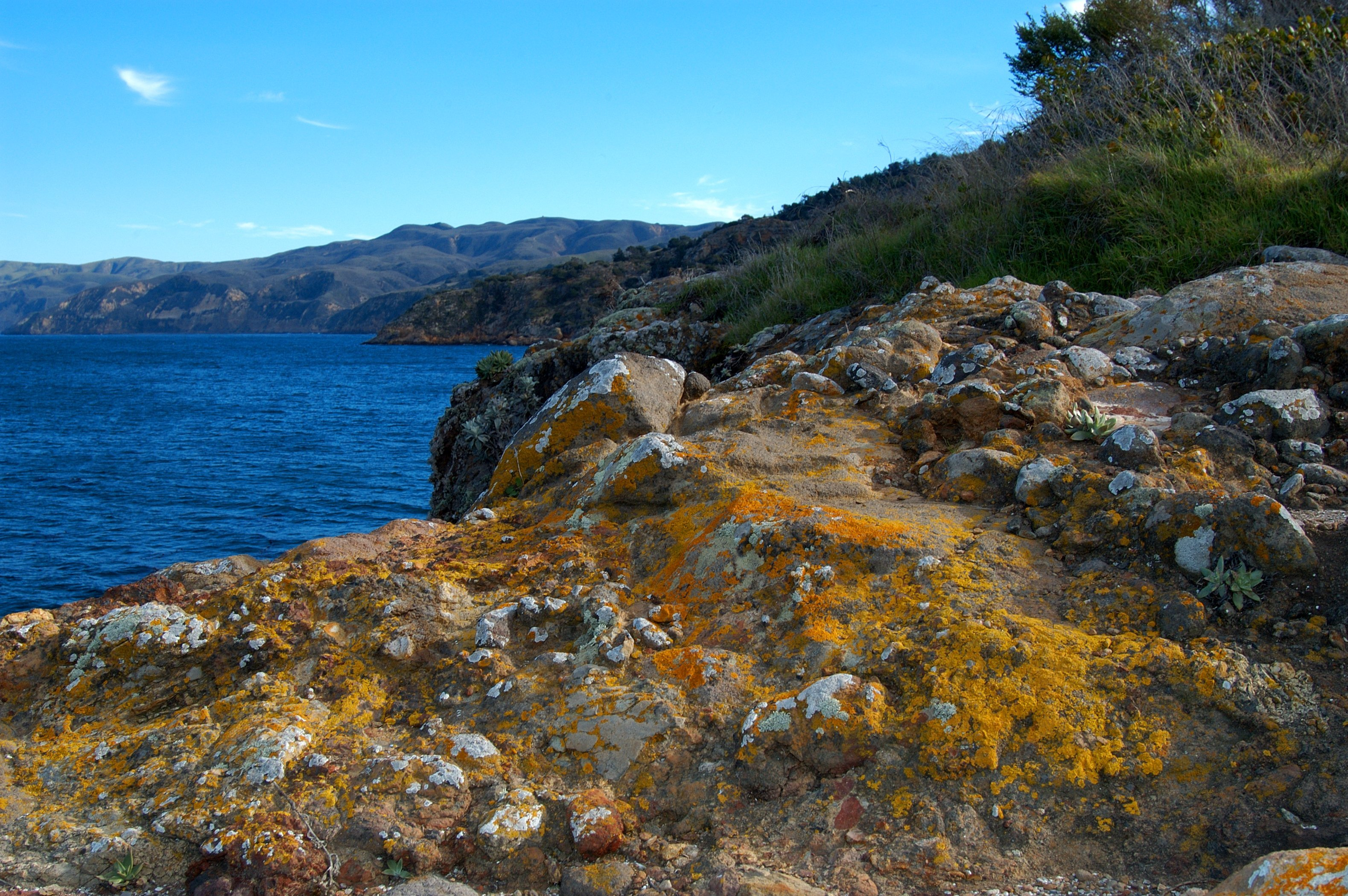 Lichen encrusted rocks on Santa Cruz Island — in the Channel Islands National Marine Sanctuary, Santa Barbara County, California.